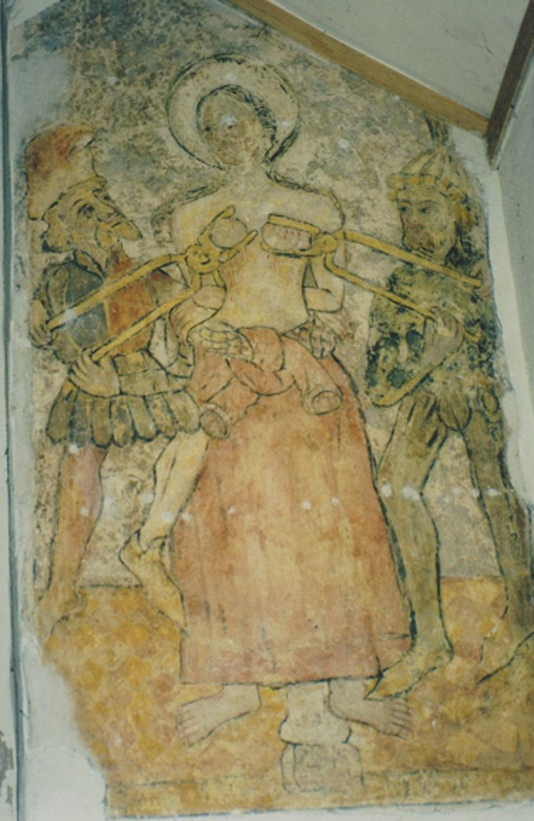 holy Agatha martyr